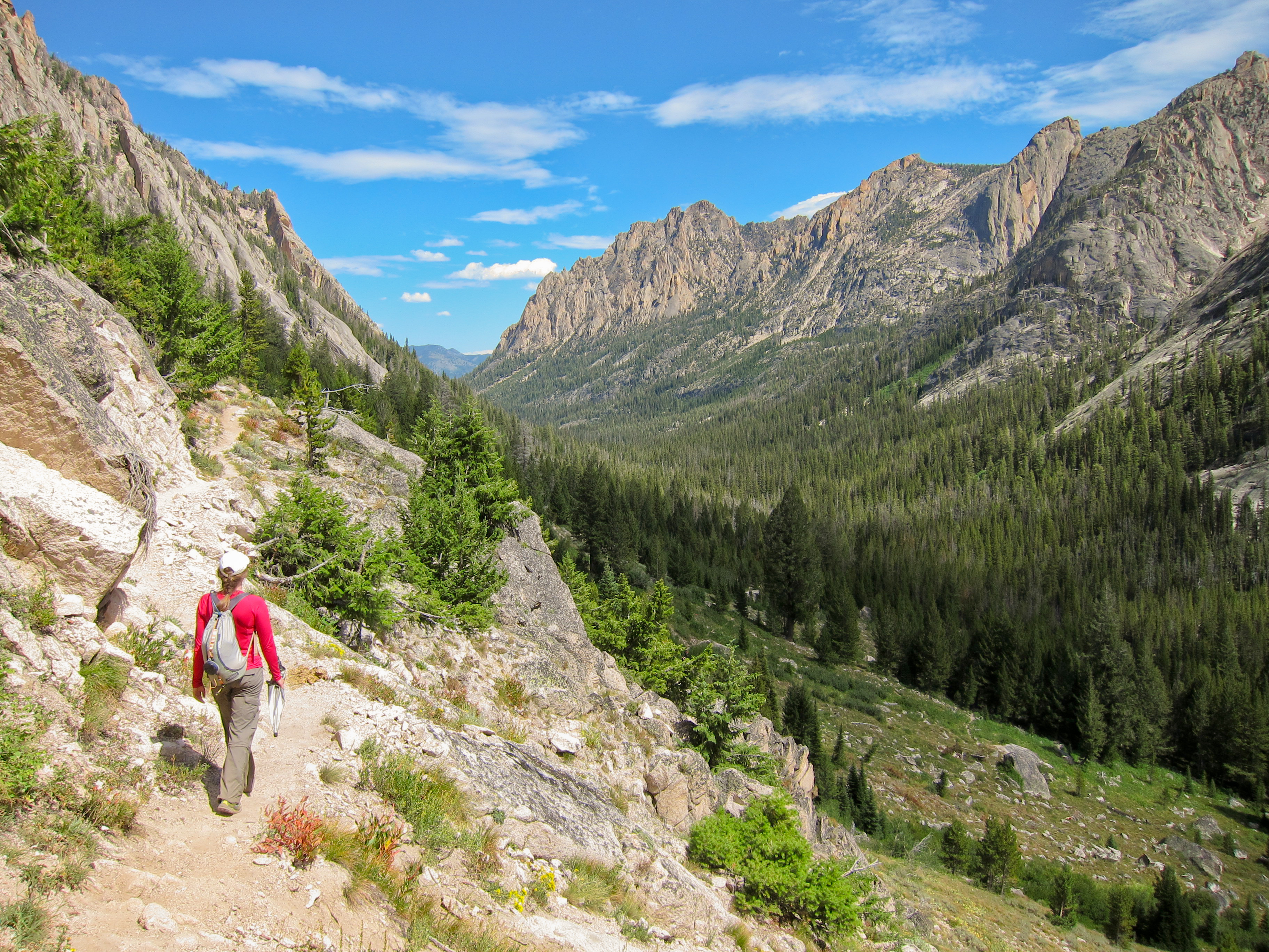 Hiker and Redfish Canyon from Alpine Lake trail in Sawtooth Wilderness